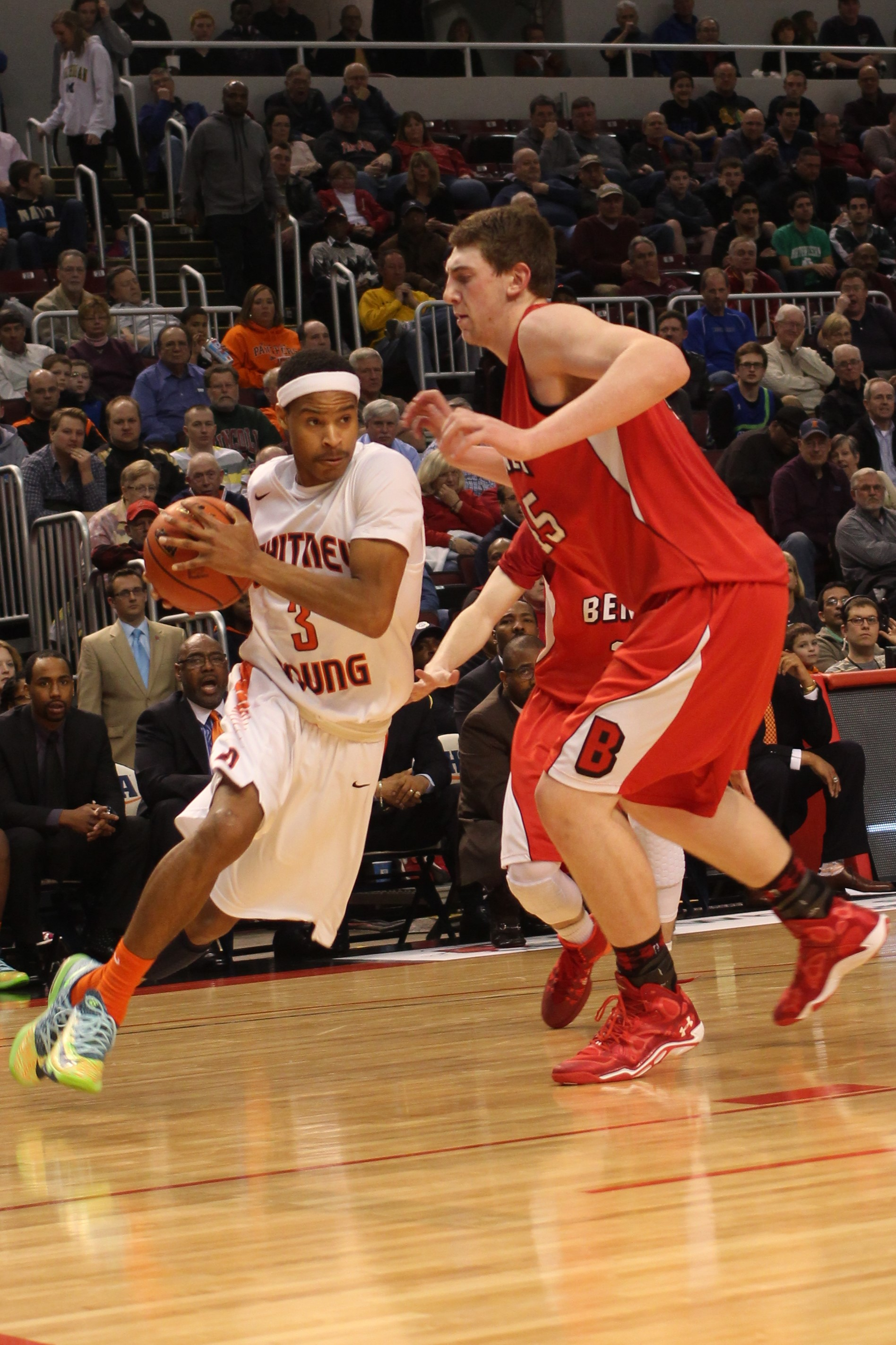 Miles Reynolds at the 2014 IHSA 4A Young v. Benet championship game